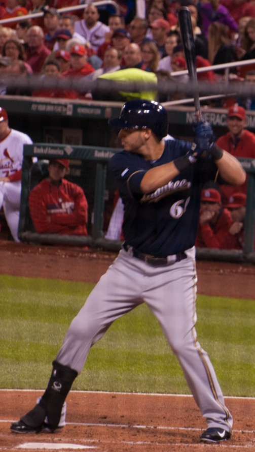 Flies out to center; top 2nd, 2-0 Cards Cardinals vs Brewers 9/16/2014 Busch Stadium III, St Louis